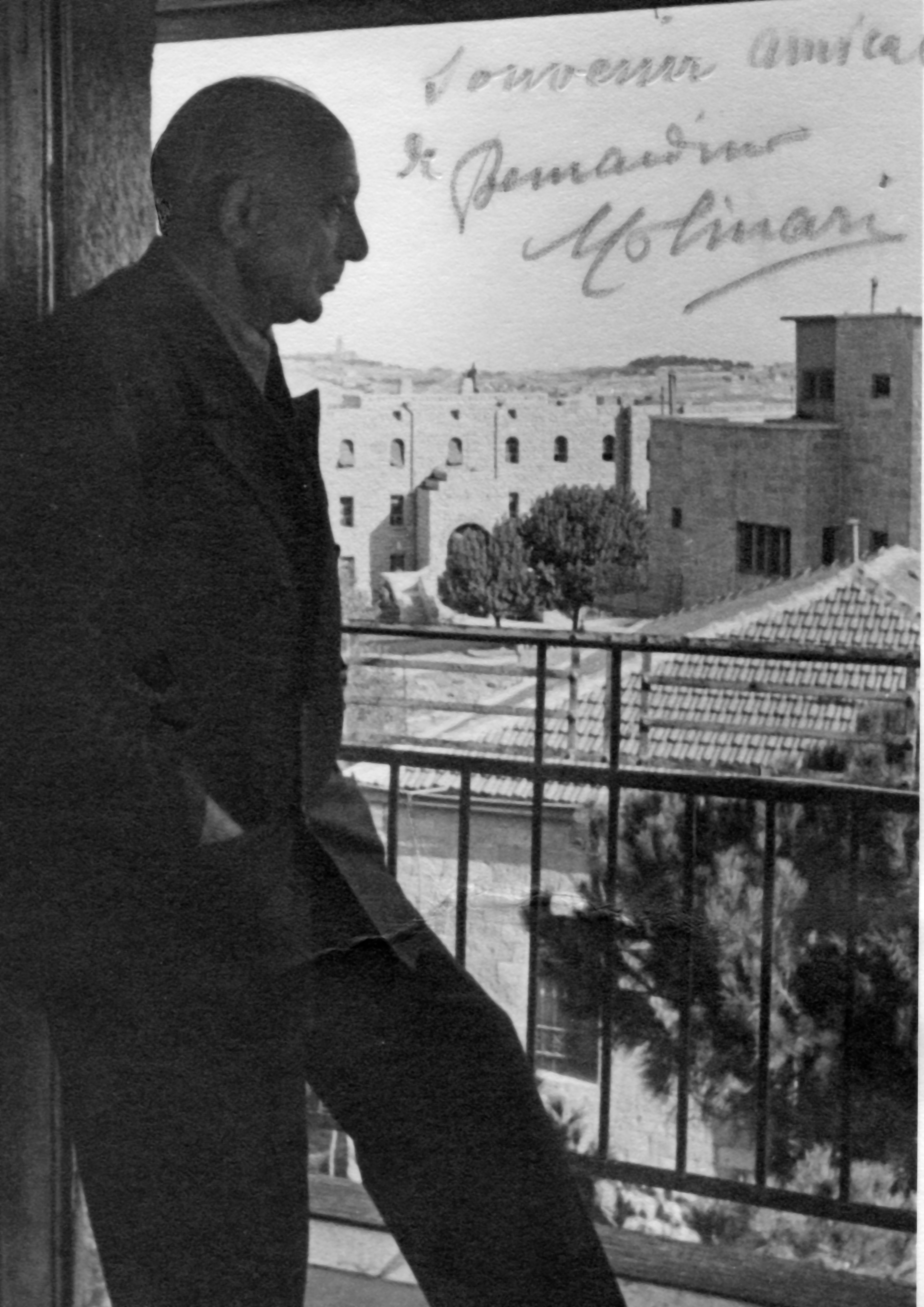 Italian conductor Bernardino Molinari (Autographed). Photo probably taken in Jerusalem, was dedicated to Josef Tal in 1945.